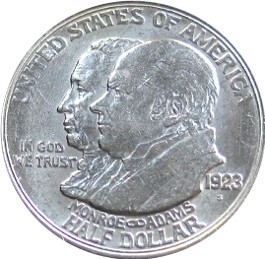 Photo taken by me.